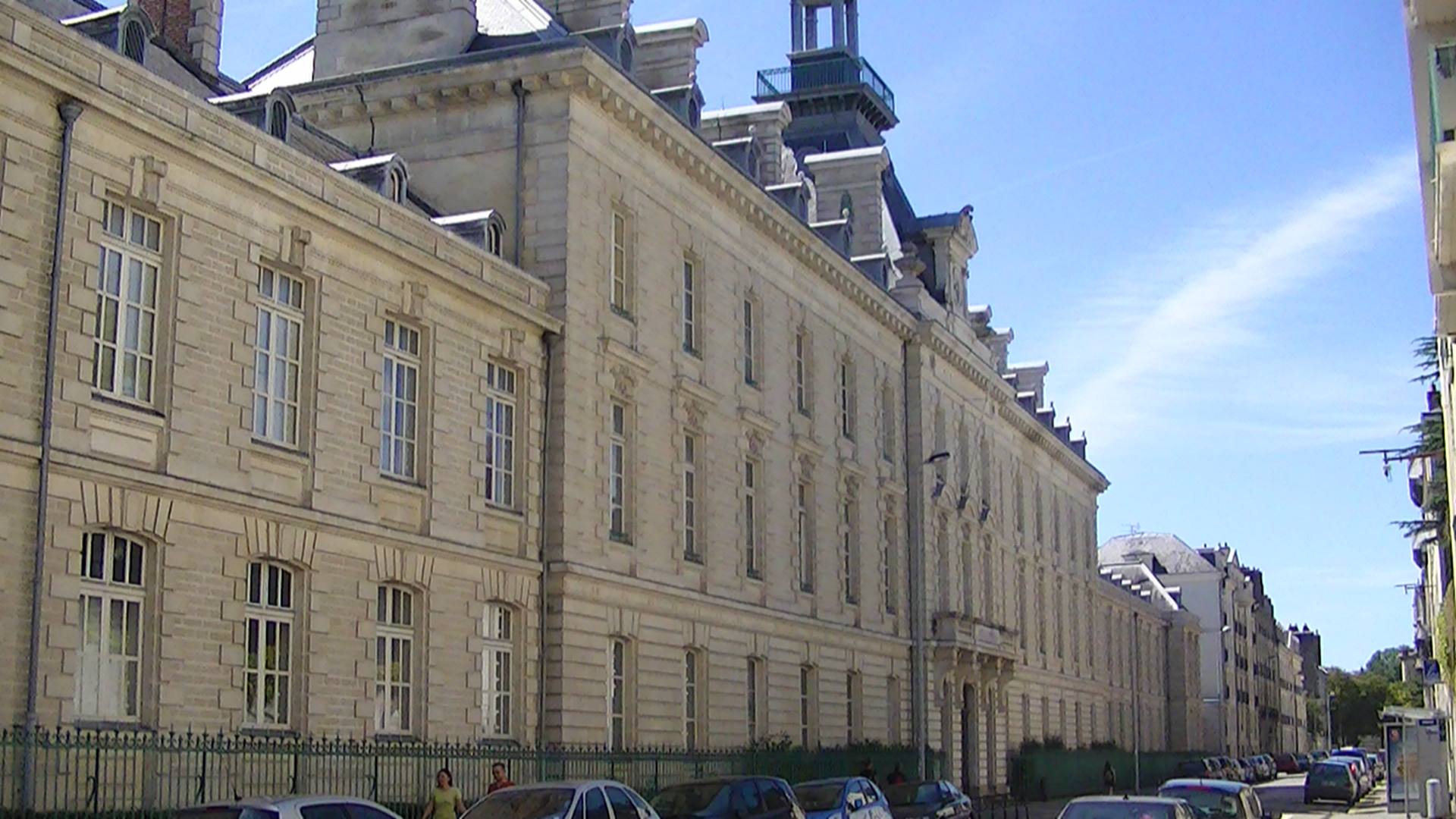 Lycée Clemenceau in Nantes, looking east